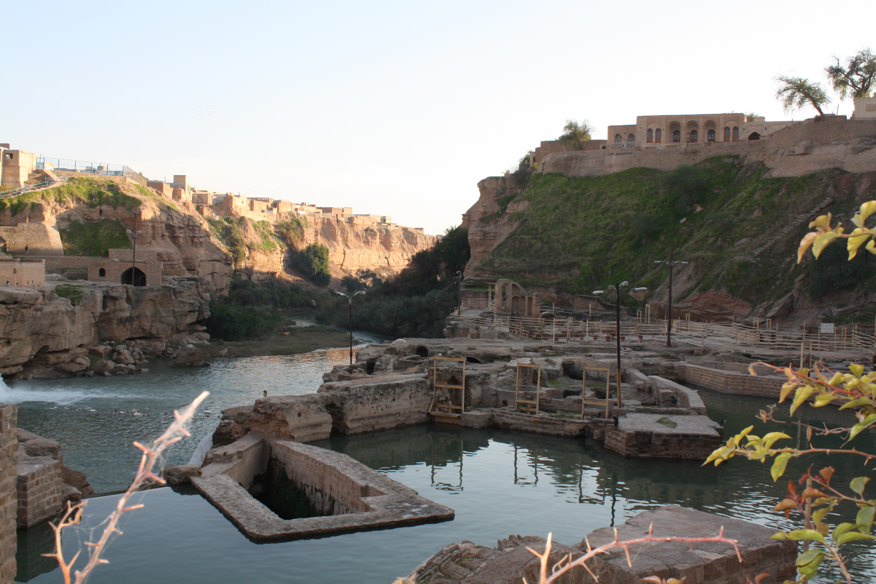 Susa, Iran. Royal Mills